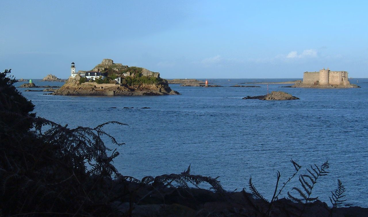 View of the bay of Morlaix to the northeast, with the Chateau du Taureau